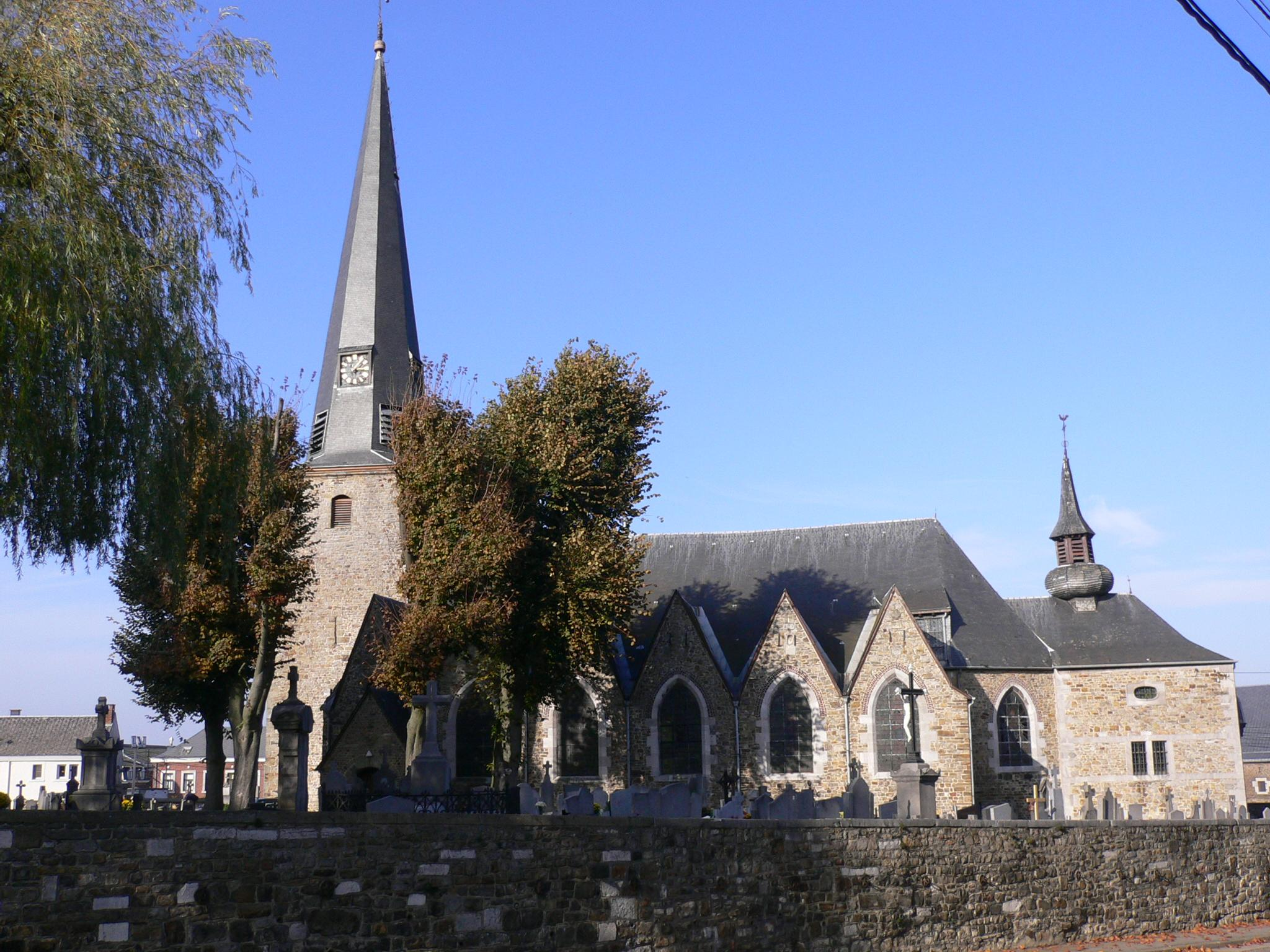 Church of Charneux, Herve (Belgium)